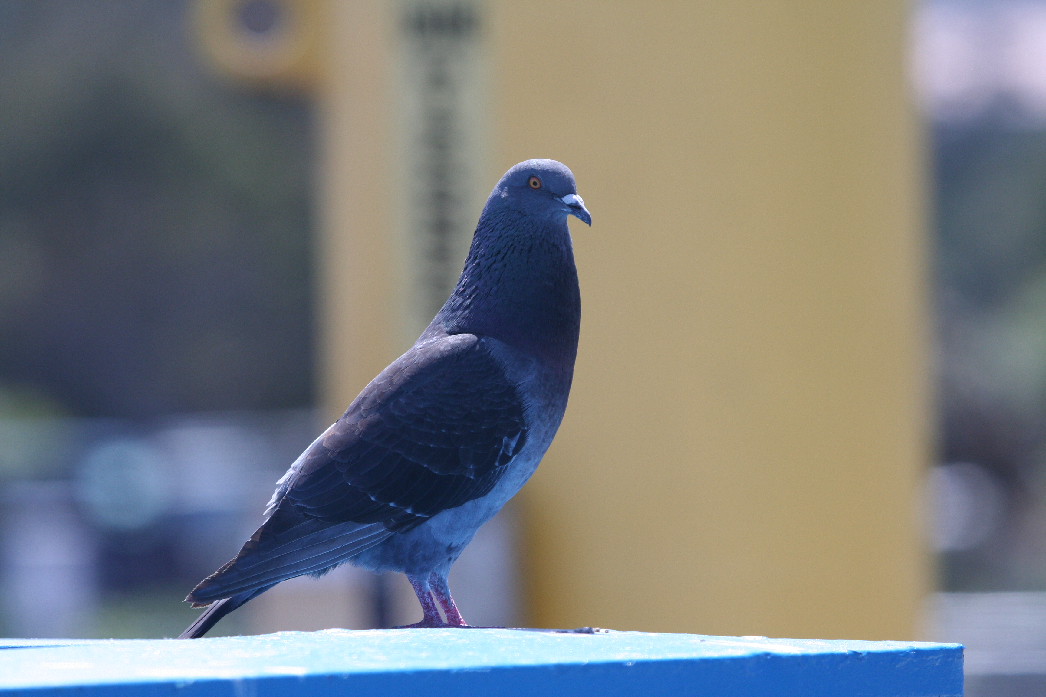 Pigeon at Monterey Breakwater